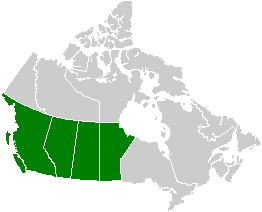 Map of the Western provinces. See Image:Canada provinces blank vide.png for additional information.